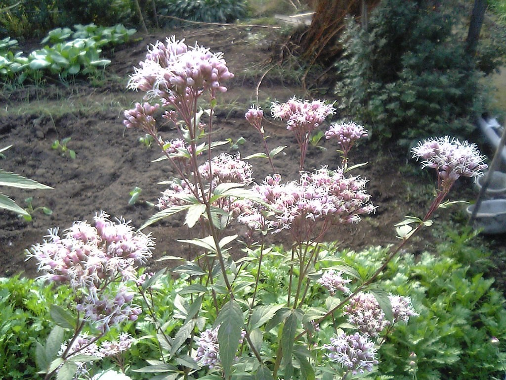 Joe-Pye_weed, Eupatorium See also: Flower, Flower, Leaf